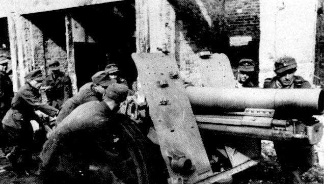 Warsaw Uprising: Soldiers from RONA positioning sIG 33.